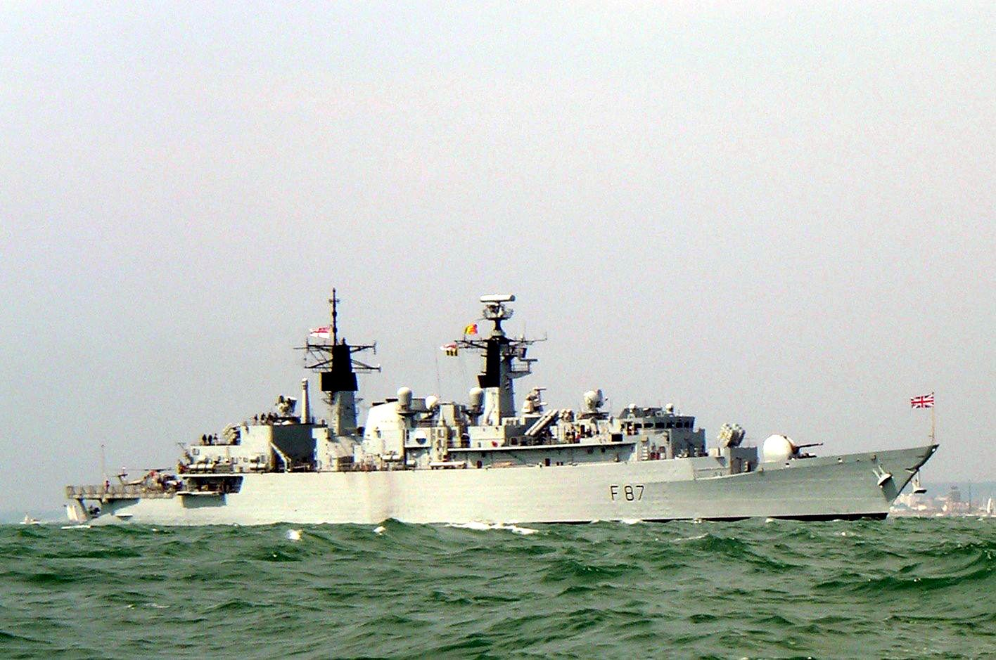 The HMS Chatham, commissioned in 1988, during the International Fleet Review, 2005.